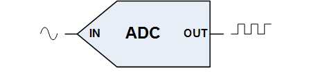 General symbol for an Analog to Digital cConverter (ADC)